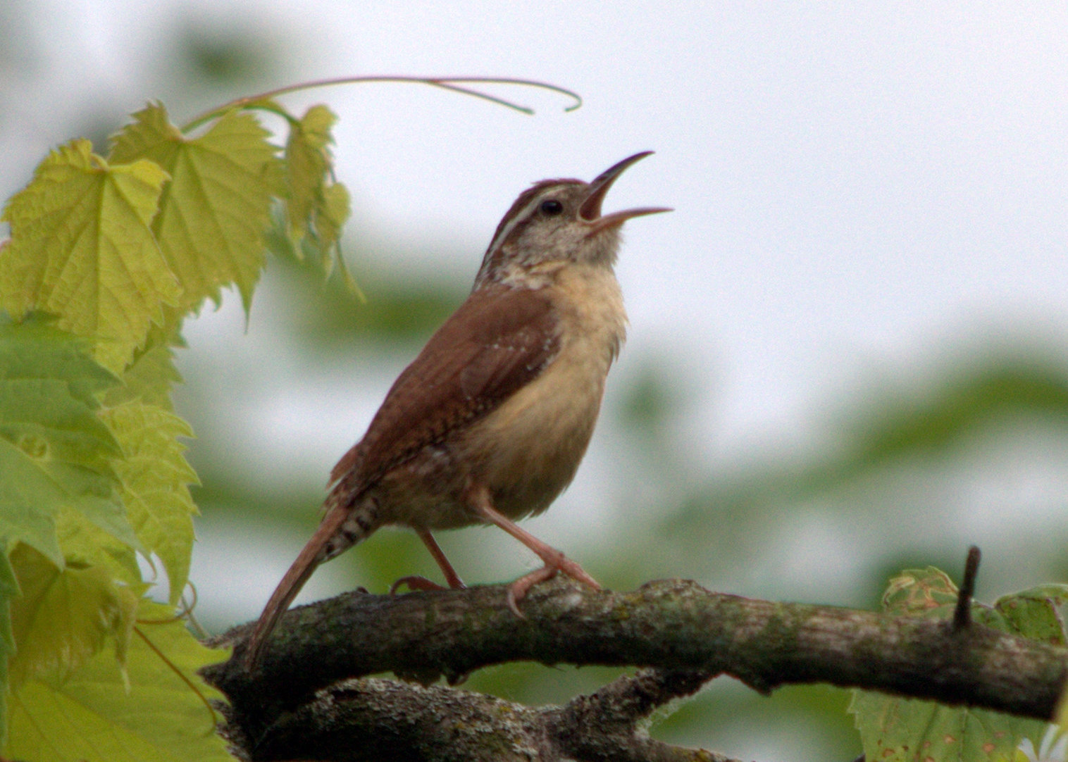 Rutland Township Forest Preserve off of Big Timber Rd. east of RT. 47 and northwest of RT. 72